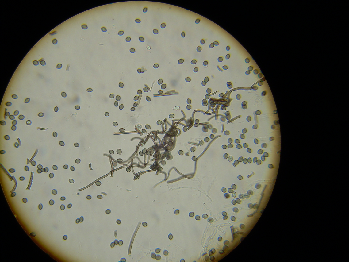 Chaetomium (anamorph: Acremonium) ascospores magnified 160X. Identified using Hanlin, R. T. (2001) Illustrated Genera of Ascomycetes, Volume I. APS Press: St. Paul, MN; pp. 101–2 ISBN 0-89054-107-8. Recovered from blackberries (Rubus L.). Host status confirmed using Farr, D. F., Bills, G. F., Chamuris, G. P., & Rossman, A. Y. (1995) Fungi on Plants and Plant Products in the United States. APS Press: St. Paul, MN; pp. 486–8 ISBN 0-89054-099-3.